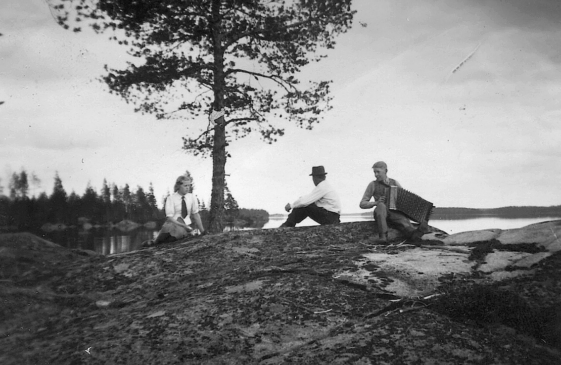 Summer Nights Lakeside Aurejärvi